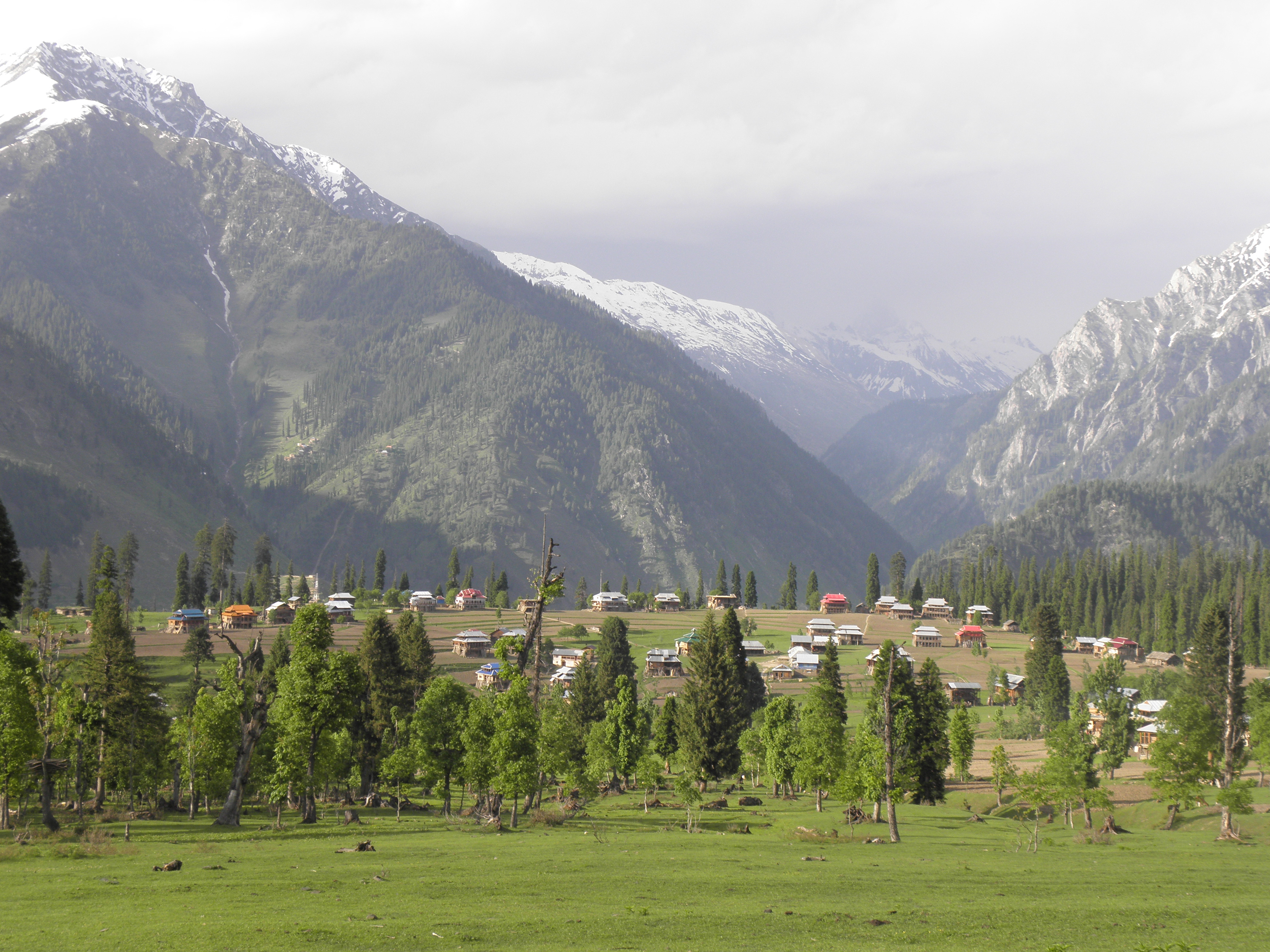 Arangkel Neelum valley Ajkjune 7